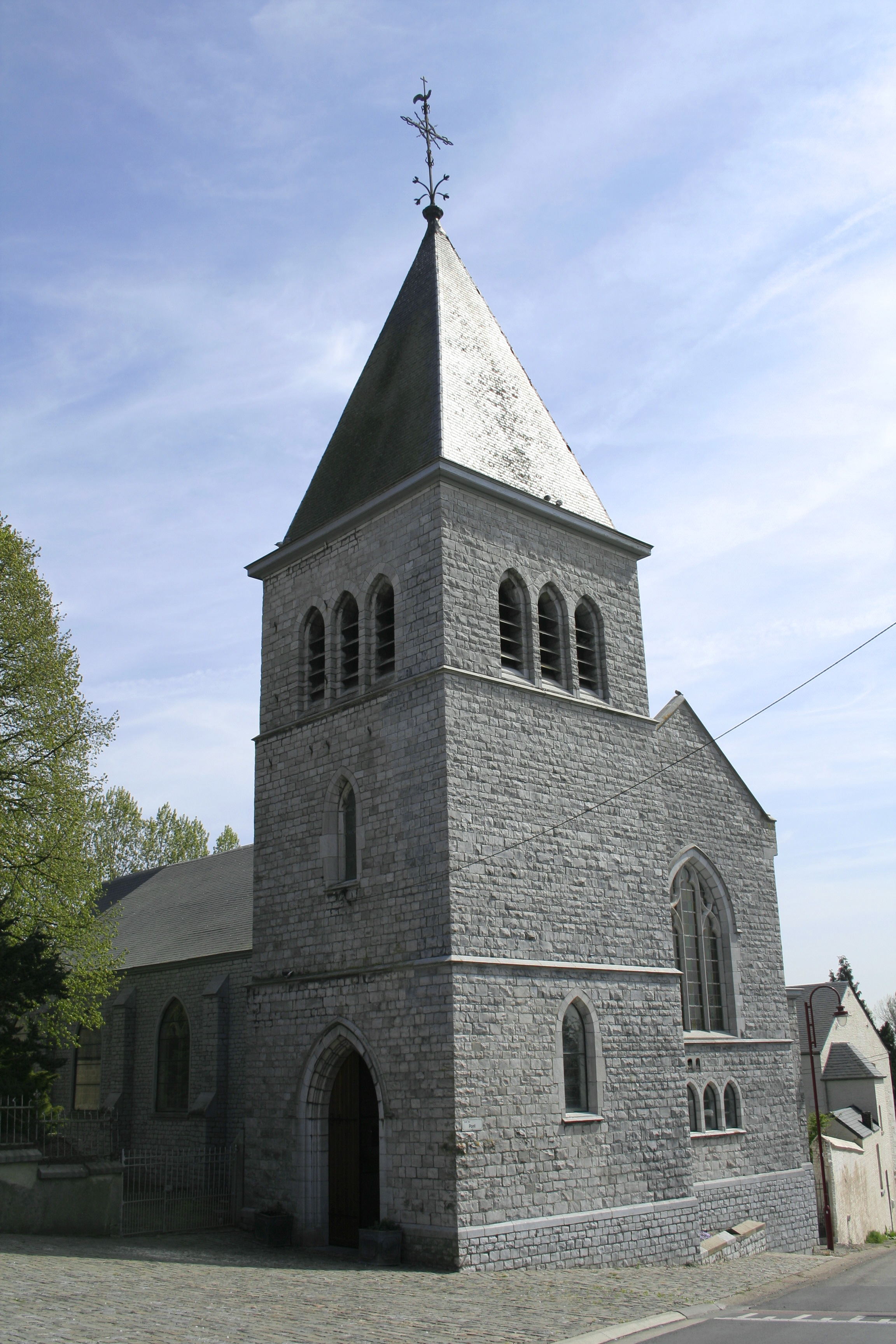 Latinne (Belgium), the church.